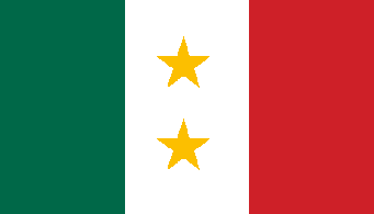 Possible flag of the Free State of Coahuila and Texas